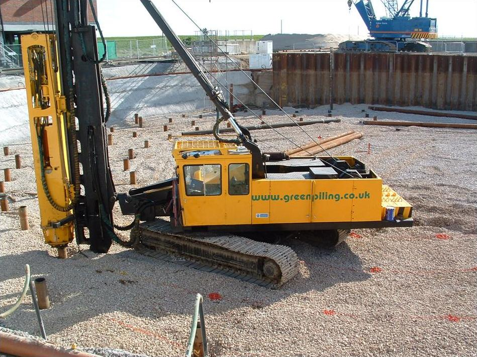 Green piling Ltd